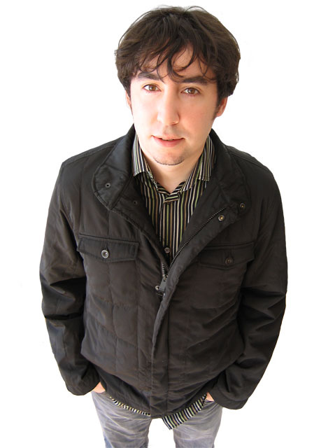 Press photo of Brad Turcotte